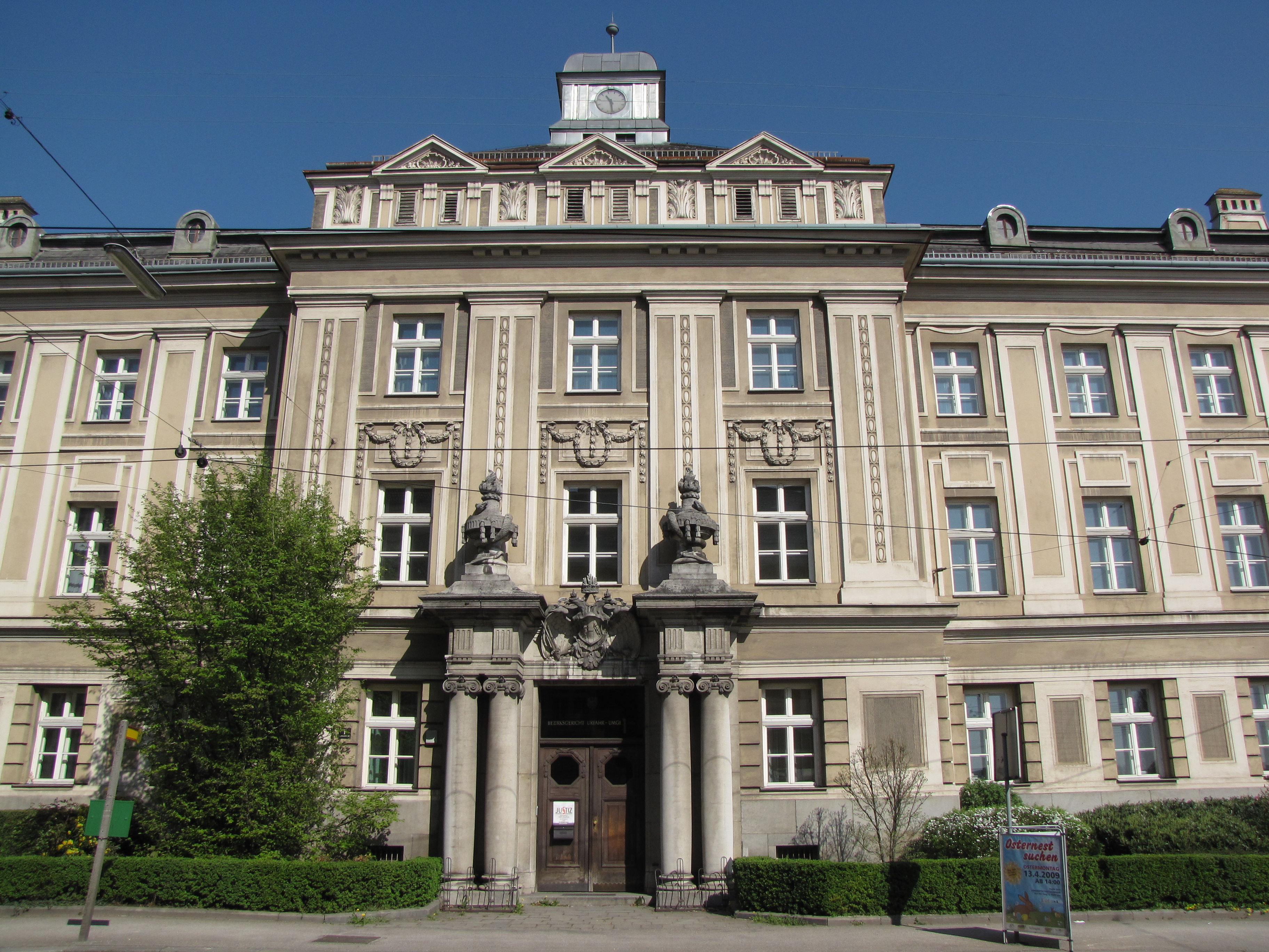 District court Urfahr Umgebung